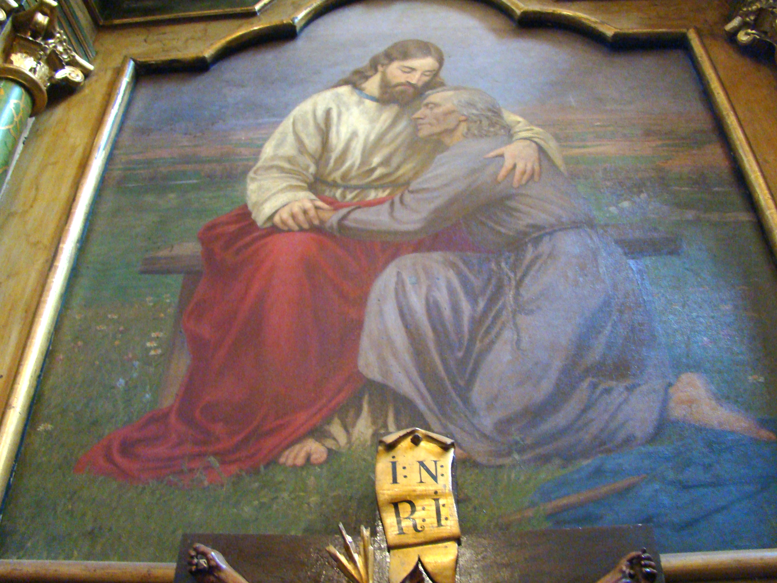 Lutheran church in Feldioara, Brașov County, Romania